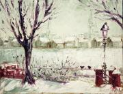 Painting